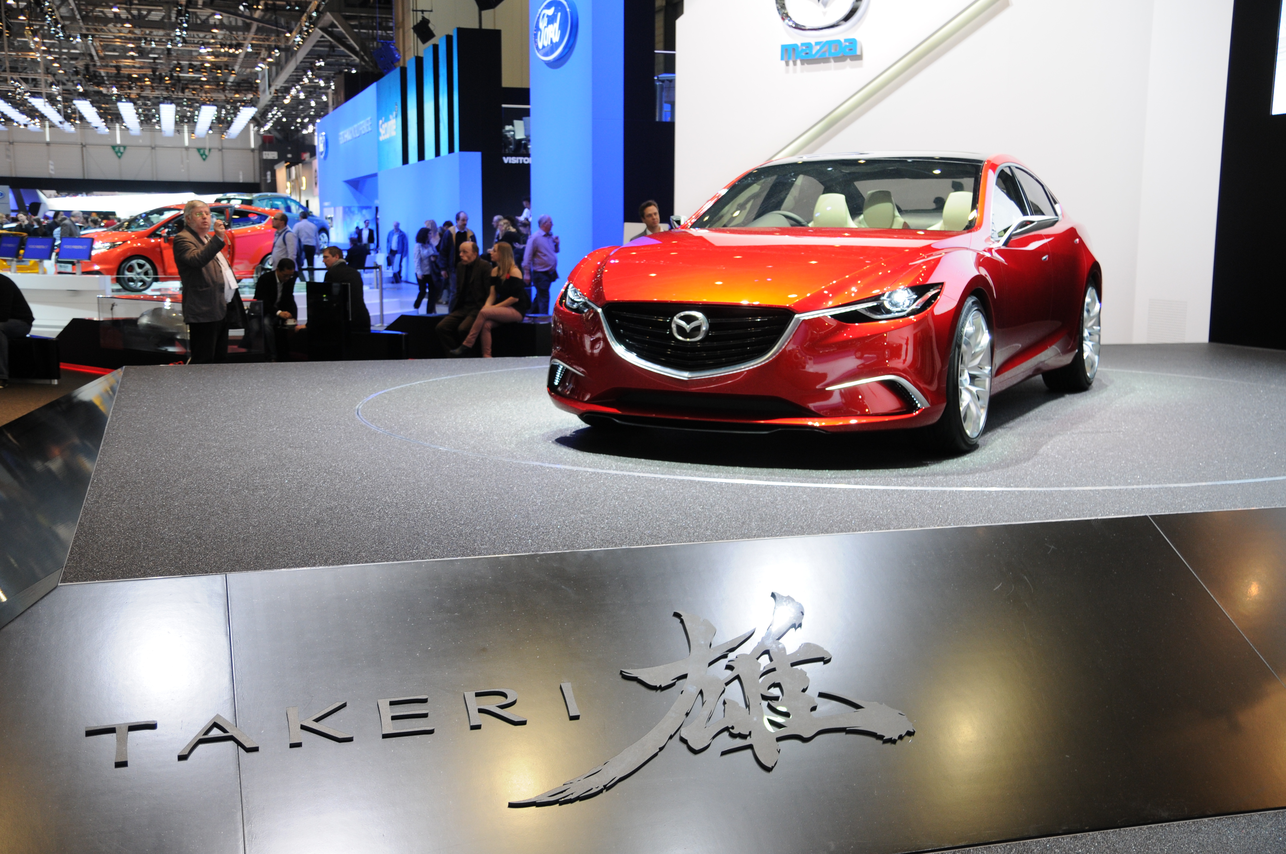 Geneva Motor Show 2012 (photos taken on the second press day)